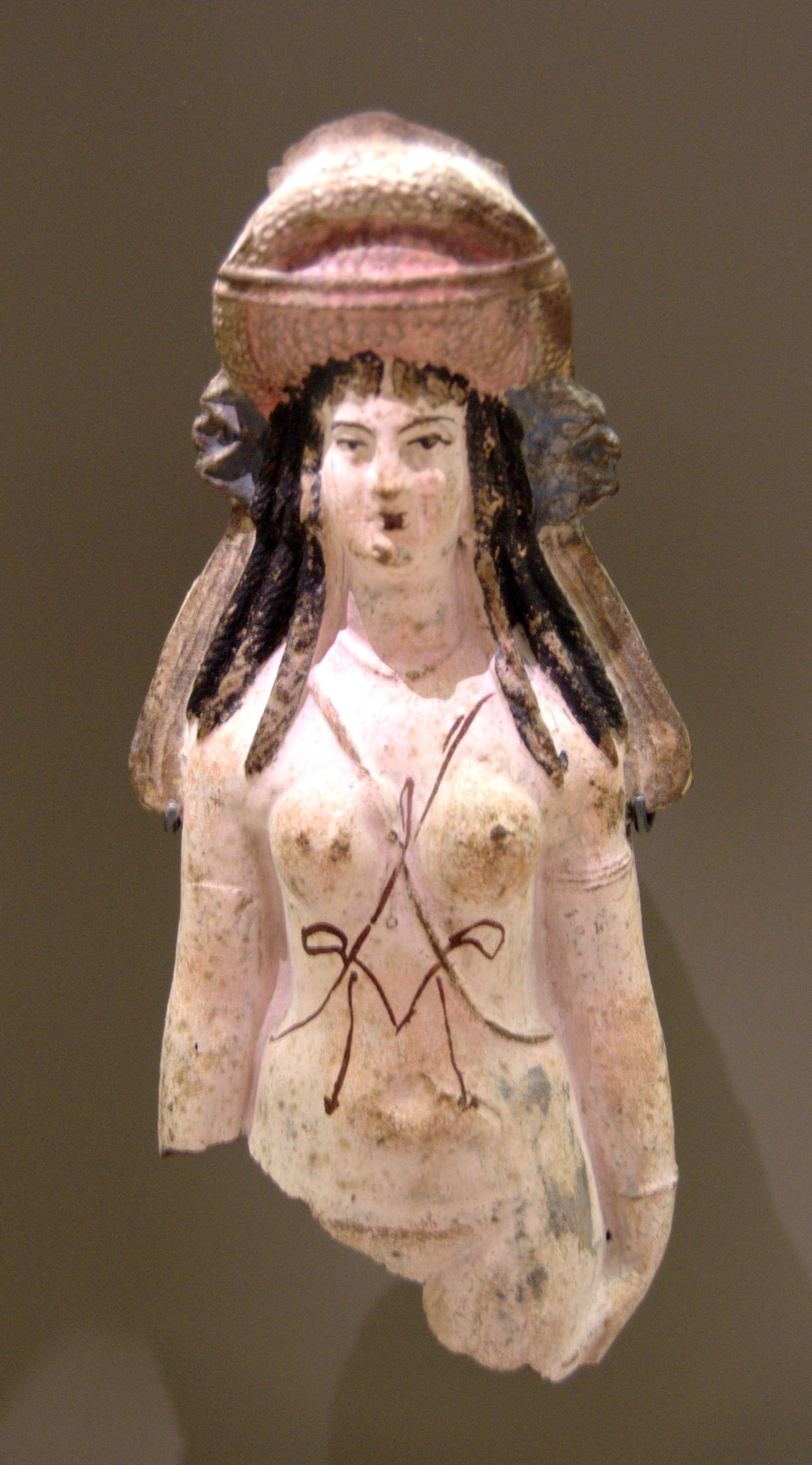 Isis-Aphrodite. Polychrom terracotta, Alexandria, 1st century.